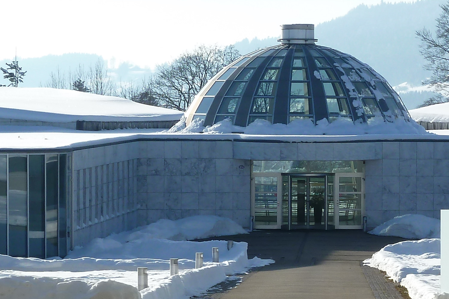 The Convention and Executive Education Center of the University of St. Gallen in St. Gallen, Switzerland